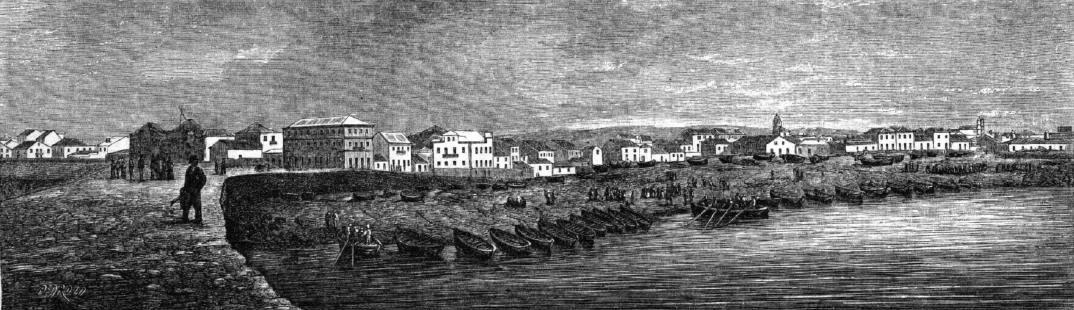 Downtown Povoa de Varzim in mid-19th century, taken from the 1868 book series "Archivo Pittoresco"